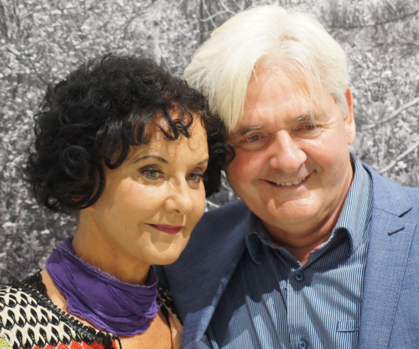 Unni Lindell, Kjell Ola Dahl - 2019